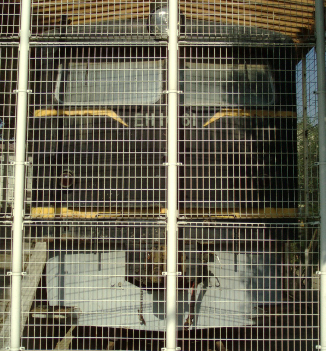 Class EH10 electric locomotive EH10 61 preserved at Higashi-Awaji Minami Park in Osaka